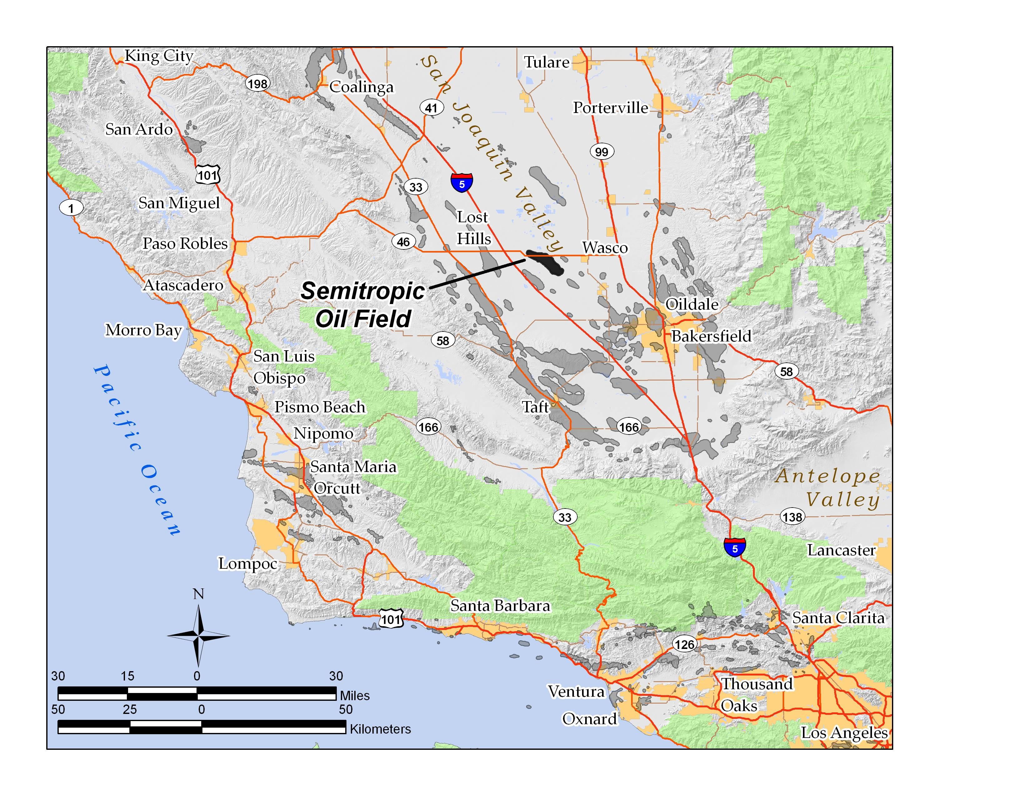 Location of Semitropic field; by self in ArcGIS 9.3 using public domain data; GFDL/equiv